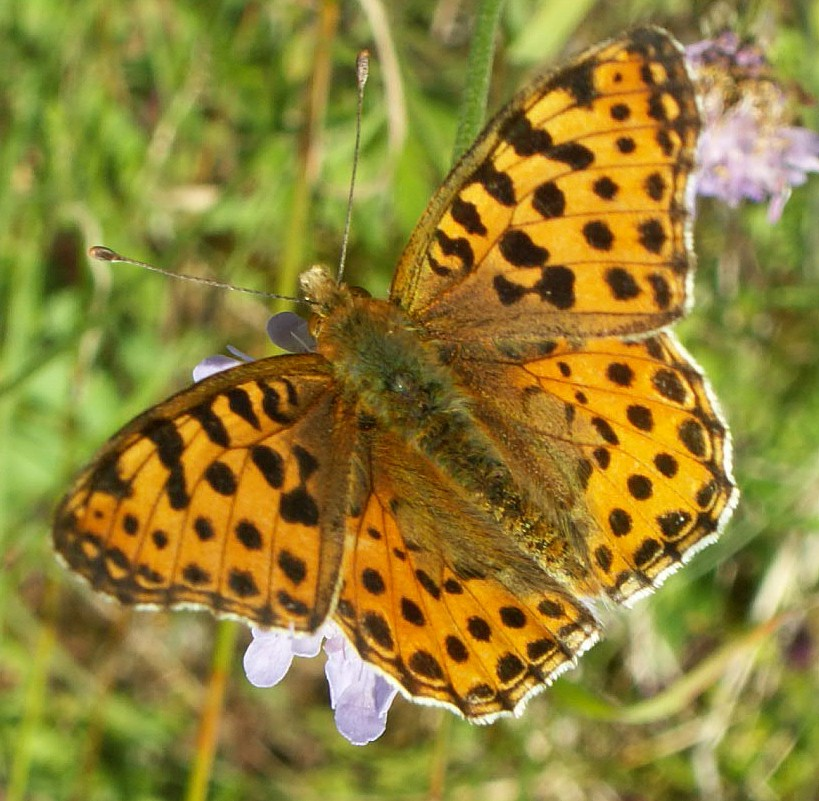 Issoria lathonia. Grassland, Kleby near Golczewo, NW Poland.